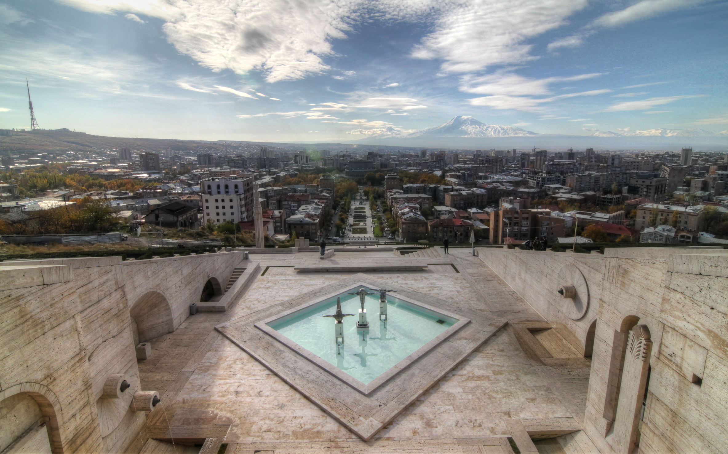 A view of Yerevan, Armenia, from the Cafesjian Museum of Art with Mount Ararat in the background.